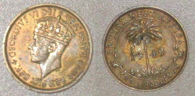 Two shilling coin (1949) from colonial British West Africa.